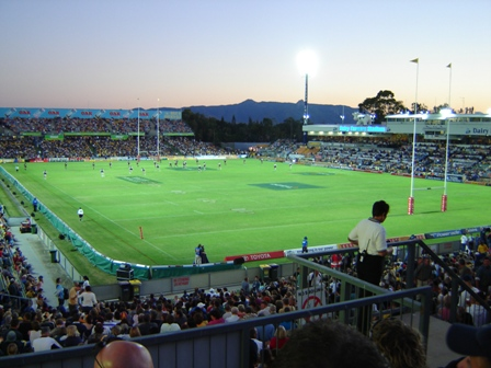 Dairy Farmers Stadium in May 2005. Photo taken by Dan Miles.